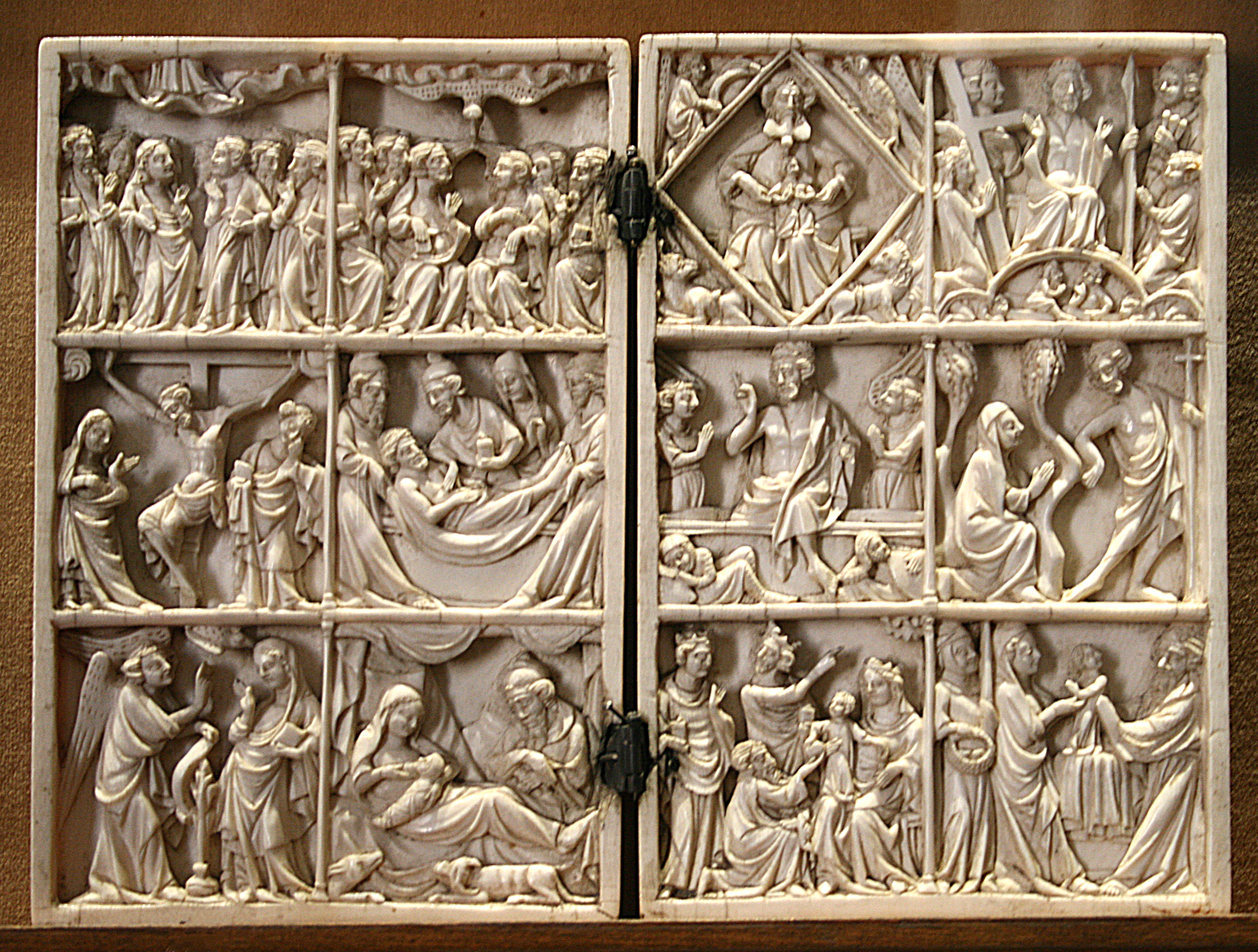 Carved ivory diptych depicting scenes from the life of Jesus